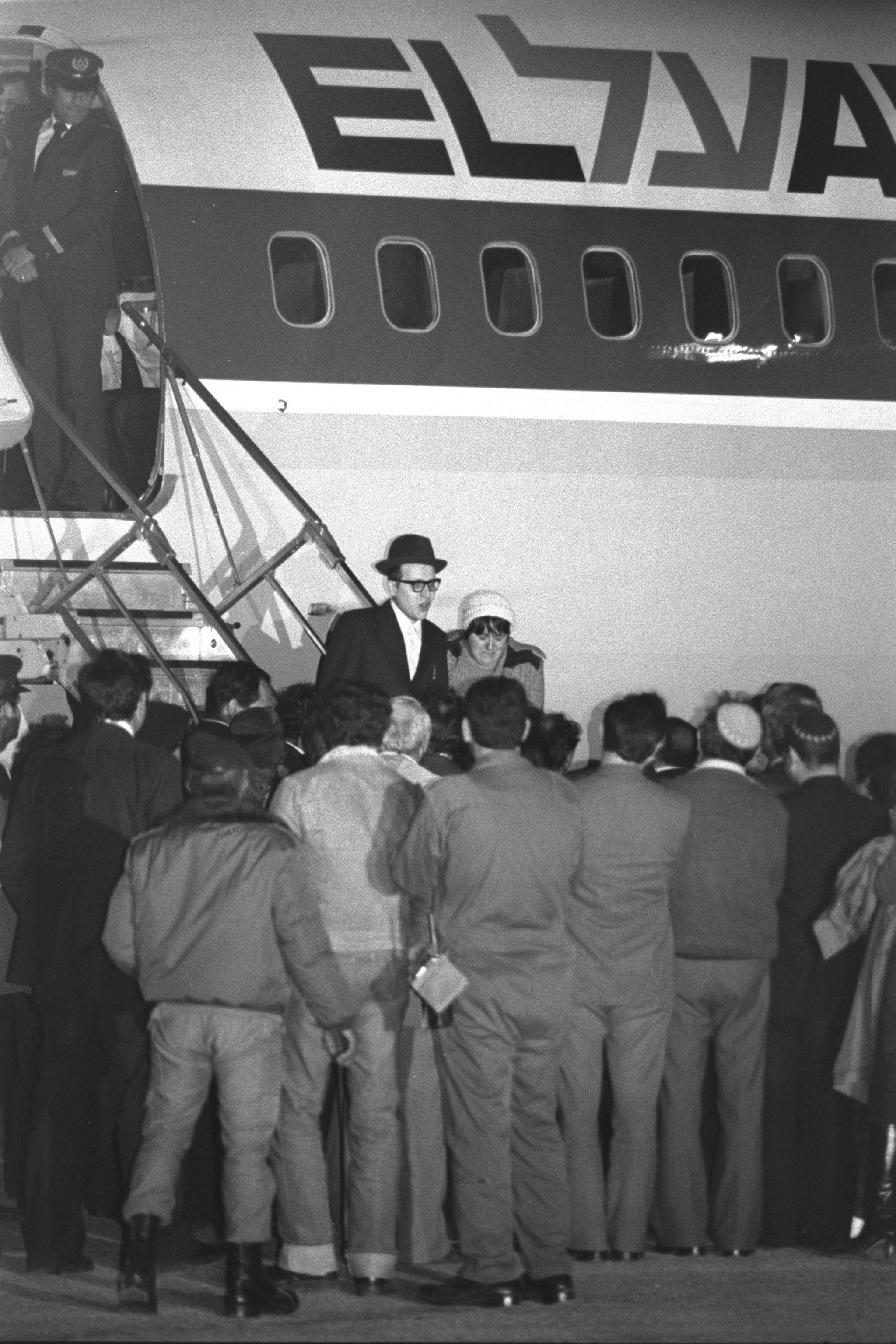 Prisoner of Zion Yosef Mendelevich is welcomed at Ben-Gurion Airport after being released from prison in the USSR. אסיר ציון יוסף מנדלביץ מתקבל בשדה התעופה בן גוריון עם הגעתו לישראל, לאחר ששוחרר מהכלא בברהמ. Photo: Yaakov Saar (1951–) Alternative names SA'AR YA'ACOV; Jacob Saar; Saʻar, YaʻaḳovDescriptionIsraeli photographerDate of birth 1951 Authority control : Q28751896 VIAF: 298161188 NLI: 001394176 creator QS:P170,Q28751896 , 02/18/1981